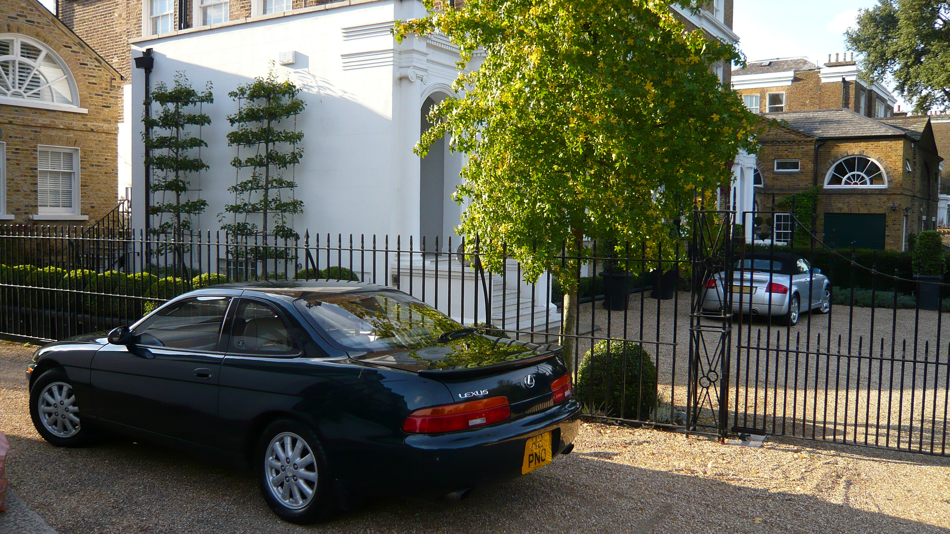 Brushes up quite well still.....